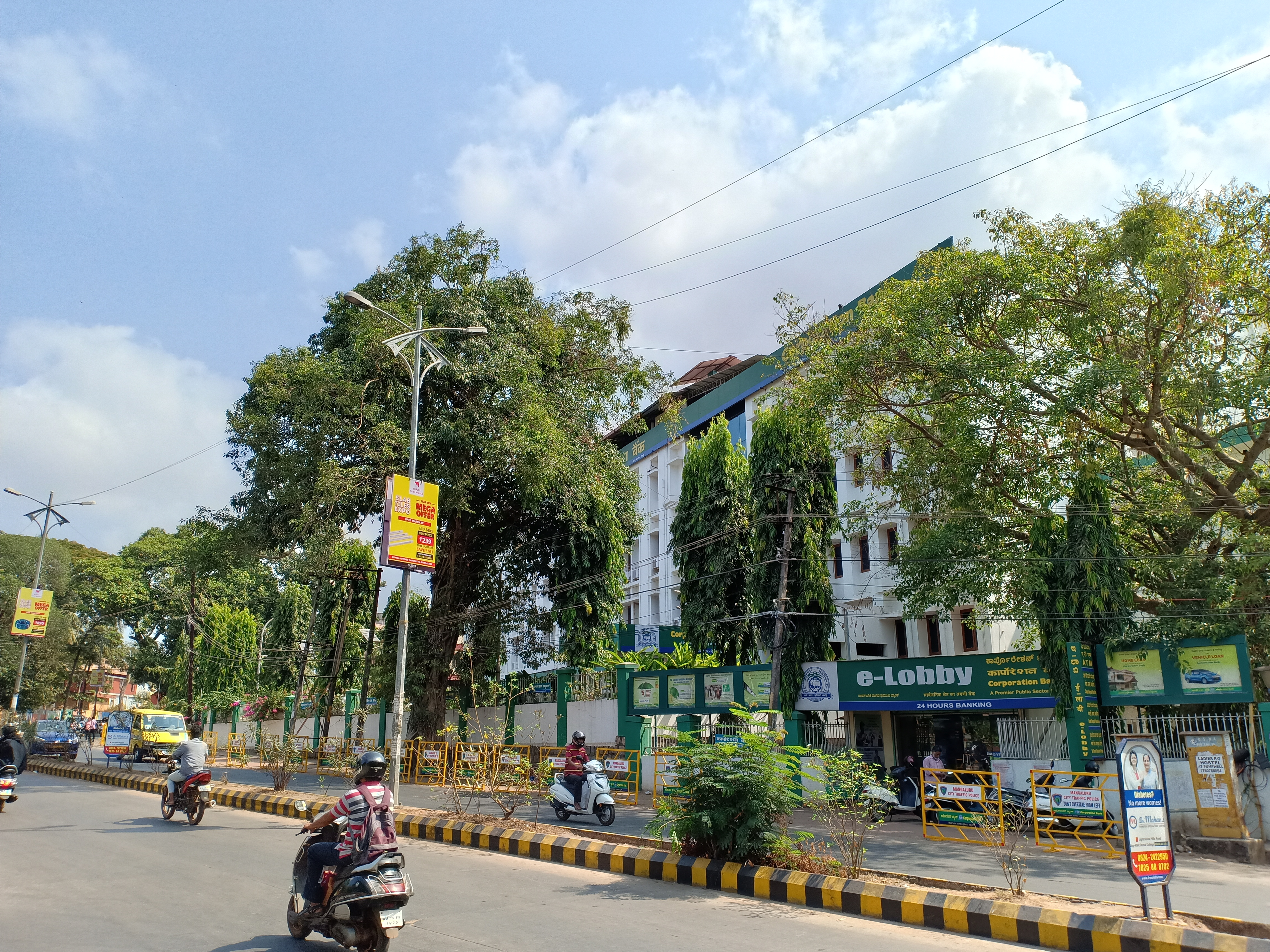 Near the entrance of Corporation Bank head office in Mangalore